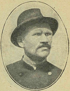 Mikhail Ivanovich Rybakov, a member of the First Russian State Duma